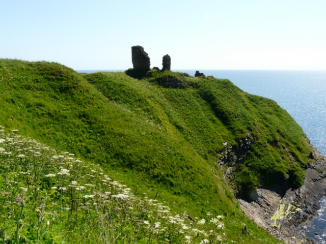 Forse Castle. Little known or visited, the site is spectacular.